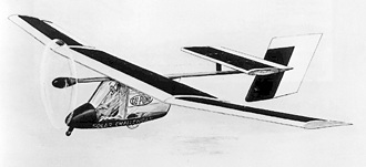 Drawing of the Solar Challenger experimental aircraft, from NASA website about Solar Power research at the Dryden Flight Research Center.